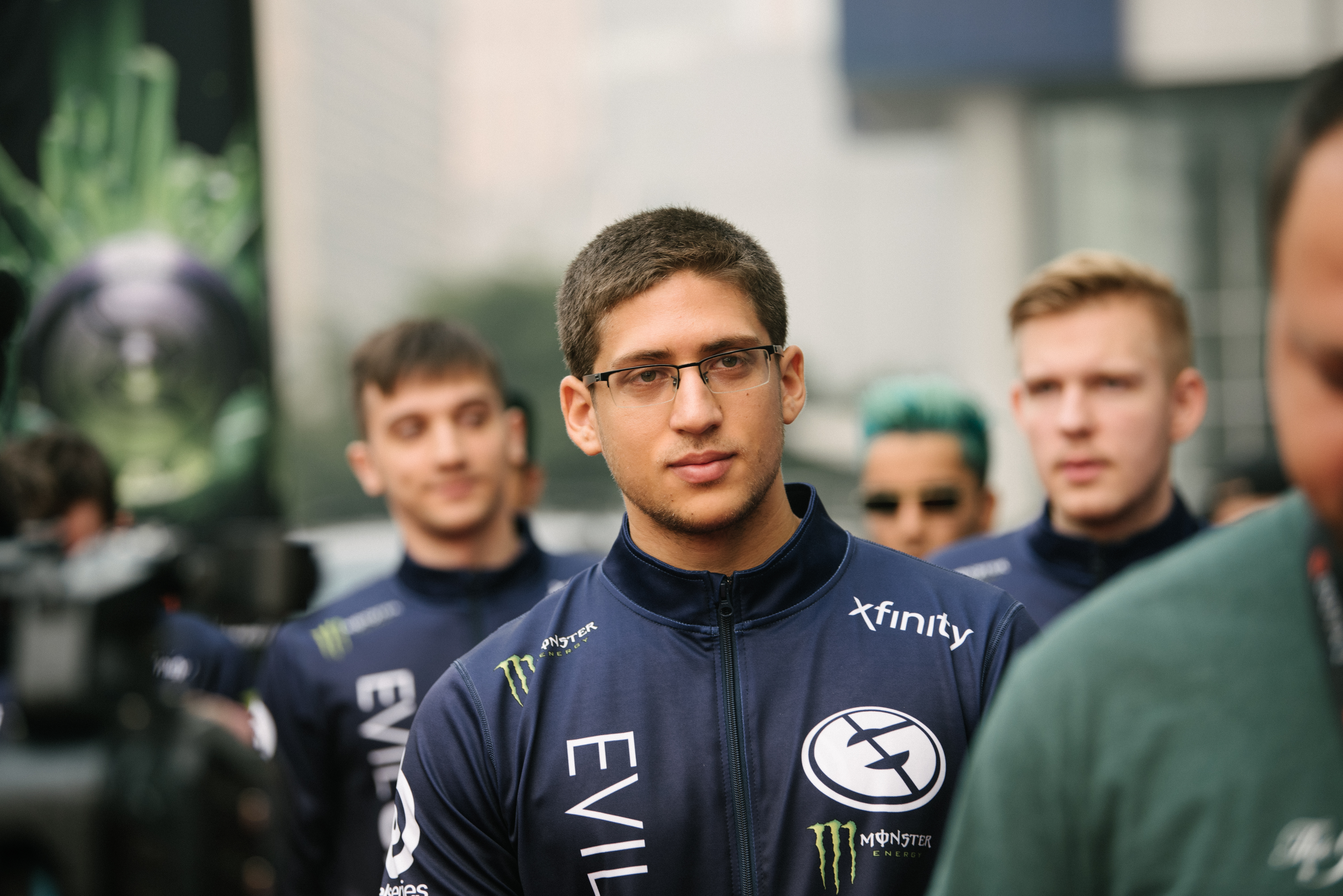 The International 2018